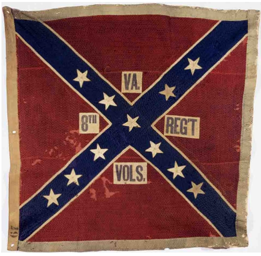 The battle flag of the 8th Virginia Infantry; the "Bloody 8th" had an 87% casualty rate at Gettysburg, Museum of the Confederacy